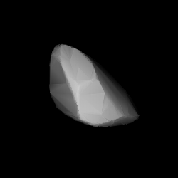 3D convex shape model of 1906 Naef, computed using light curve inversion techniques. J. Hanuš, J. Ďurech, M. Brož, B. D. Warner (June 2011). "A study of asteroid pole-latitude distribution based on an extended set of shape models derived by the lightcurve inversion method". Astronomy and Astrophysics 530: A134. ISSN 0004-6361. arXiv